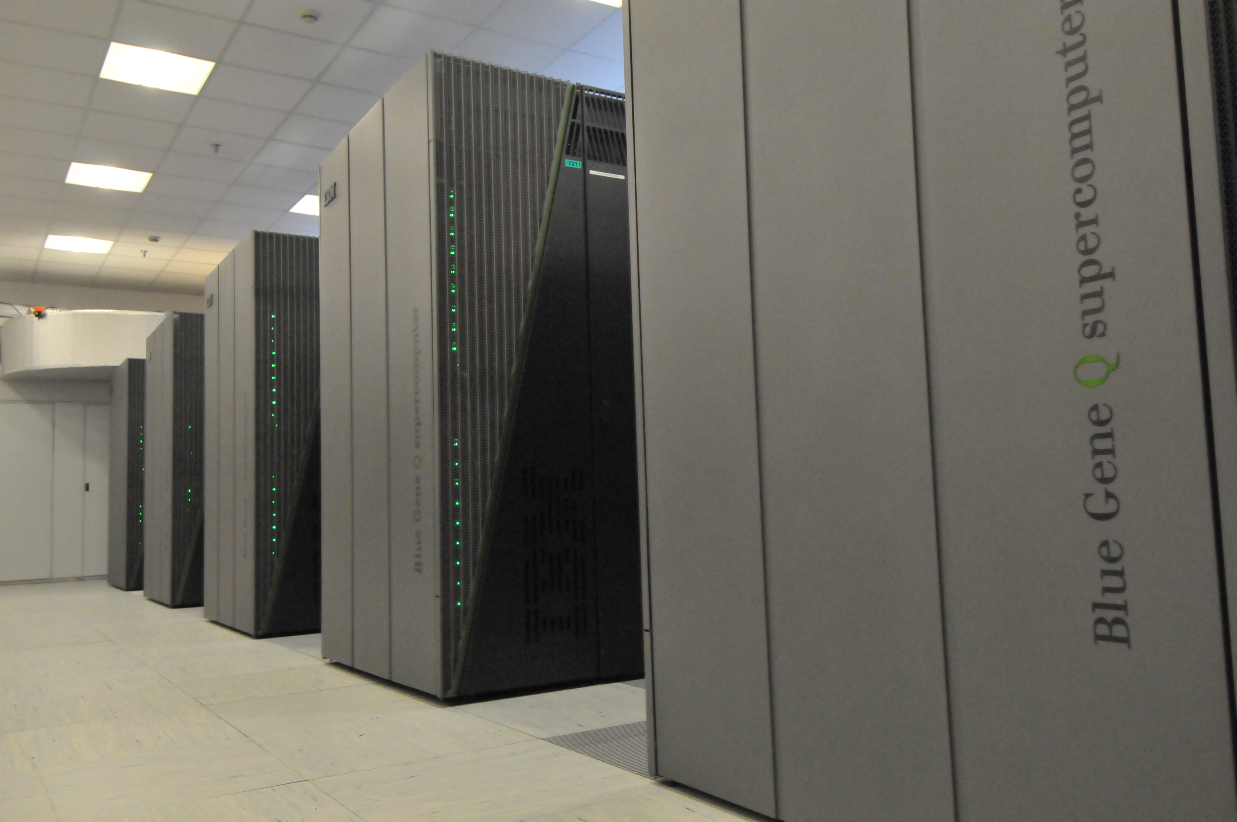 The Fermi BlueGene/Q supercomputer racks